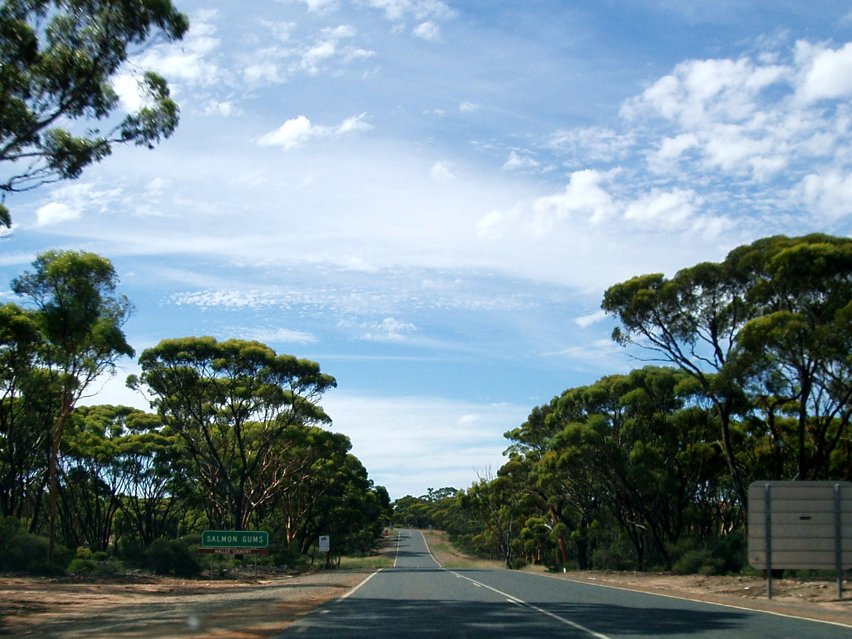 Coolgardie Esperance Highway WA. Salmon Gums We regretfully tore ourselves away from the delights of Esperance to head inland to Norseman on the edge of the Nullabor Desert. The Salmon Gum (Eucalyptus salmonophloia) is one of the most beautiful trees outside of the high rainfall area of the south-west, with its spectacular salmon pink to coppery coloured bark in season, and bright green glossy leaves.